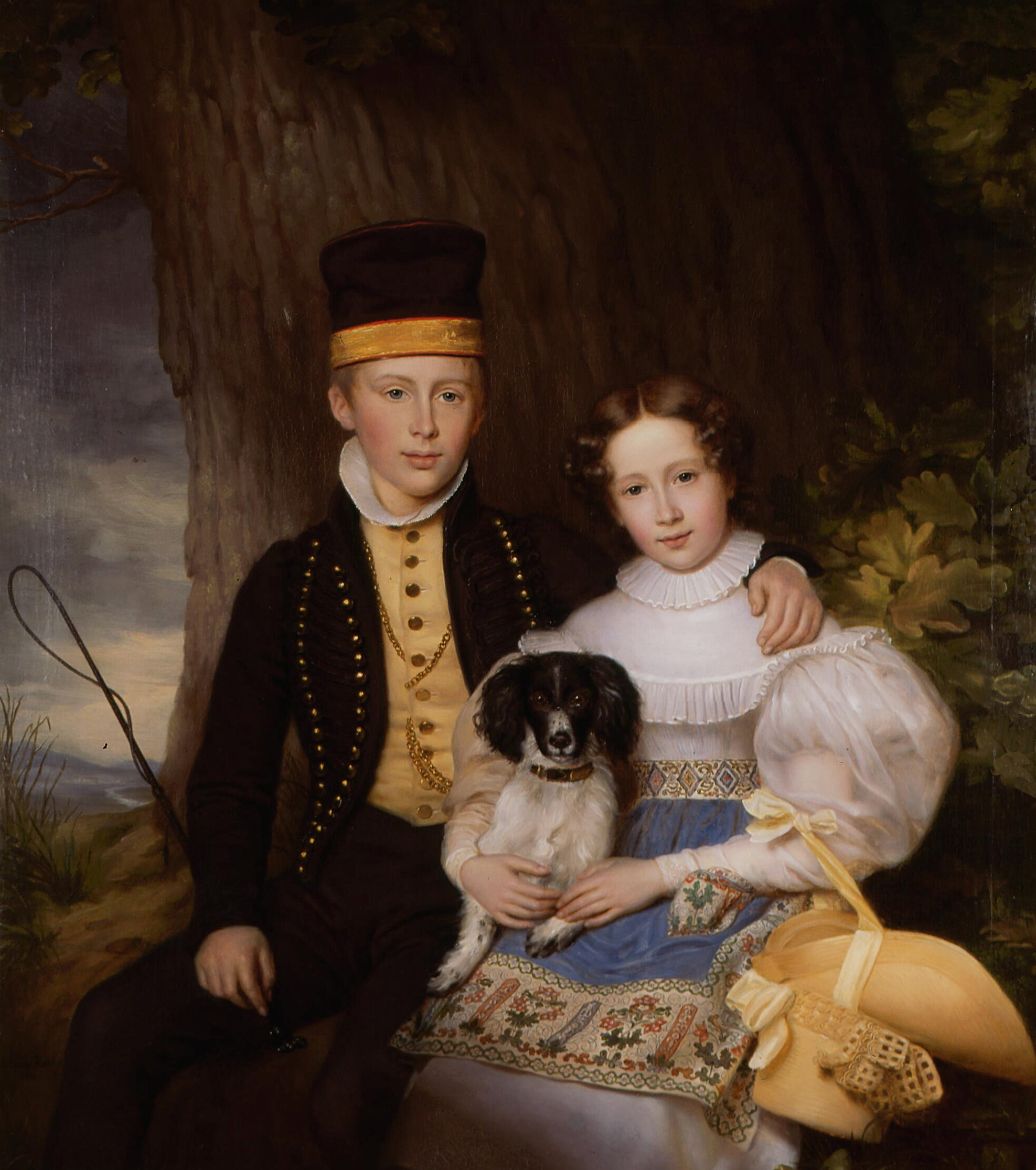 Prince Henry and his little sister Princess Sophie of the Netherlands